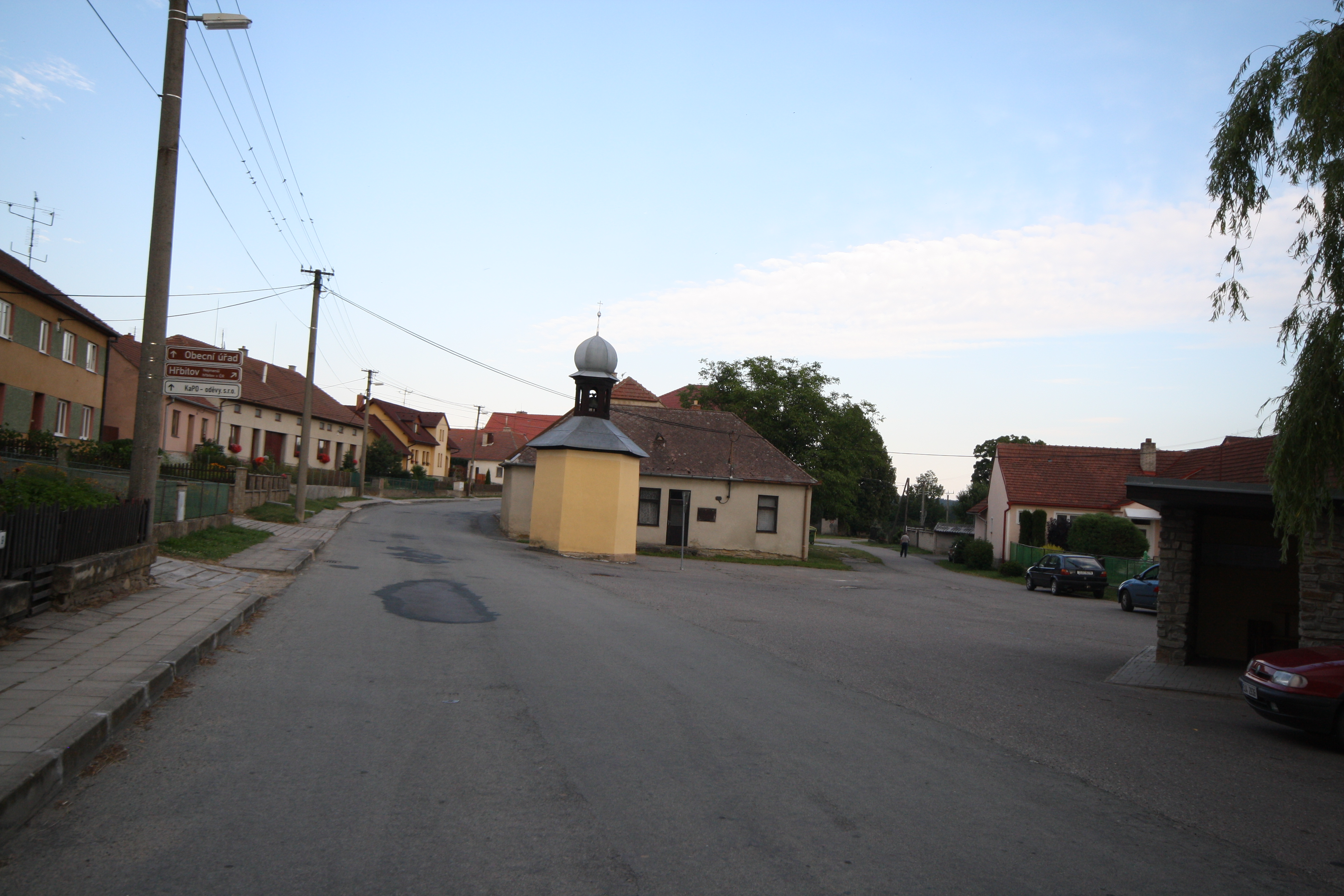 Center of Hluboké, Třebíč District.